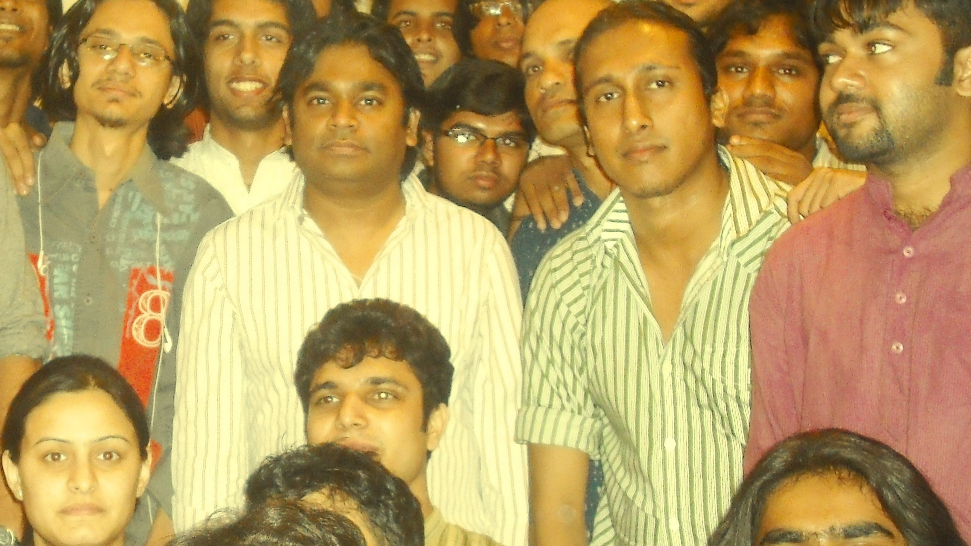 Dinesh in KM KM Music Conservatory IN 2009 -2011